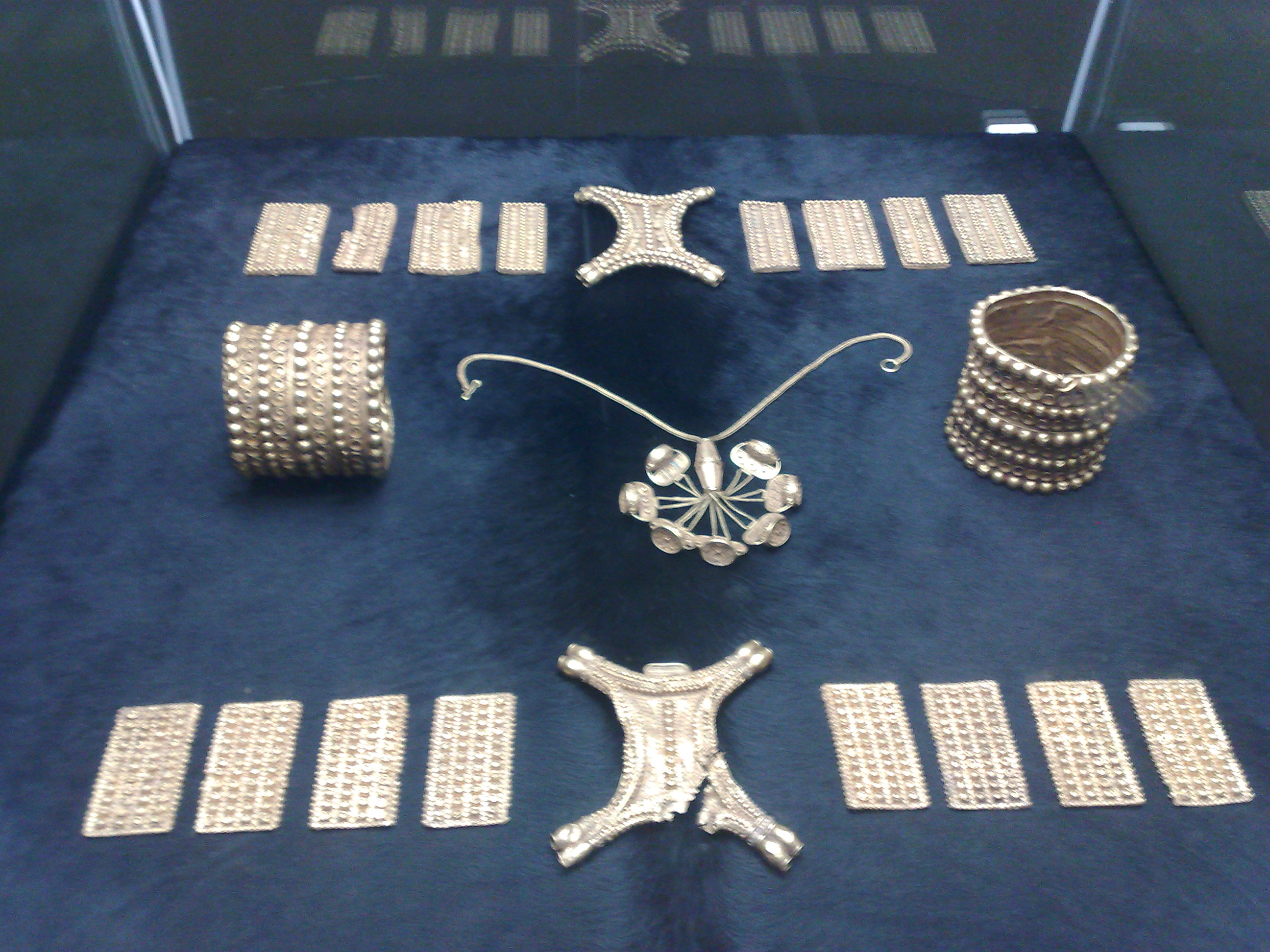 Treasure of El Carambolo belonging to the indigenous civilization of Tartessos developed in the Lower Guadalquivir. Image of the original treasure, exhibited in the Archaeological Museum of Seville on the 50th anniversary of his discovery.